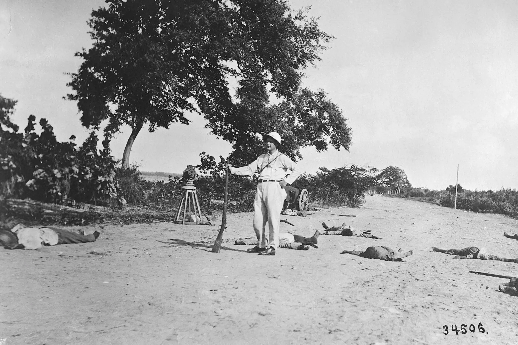 Haitian revolutionists killed in engagement with U.S. Marines and rapid fire guns which was captured by marines.